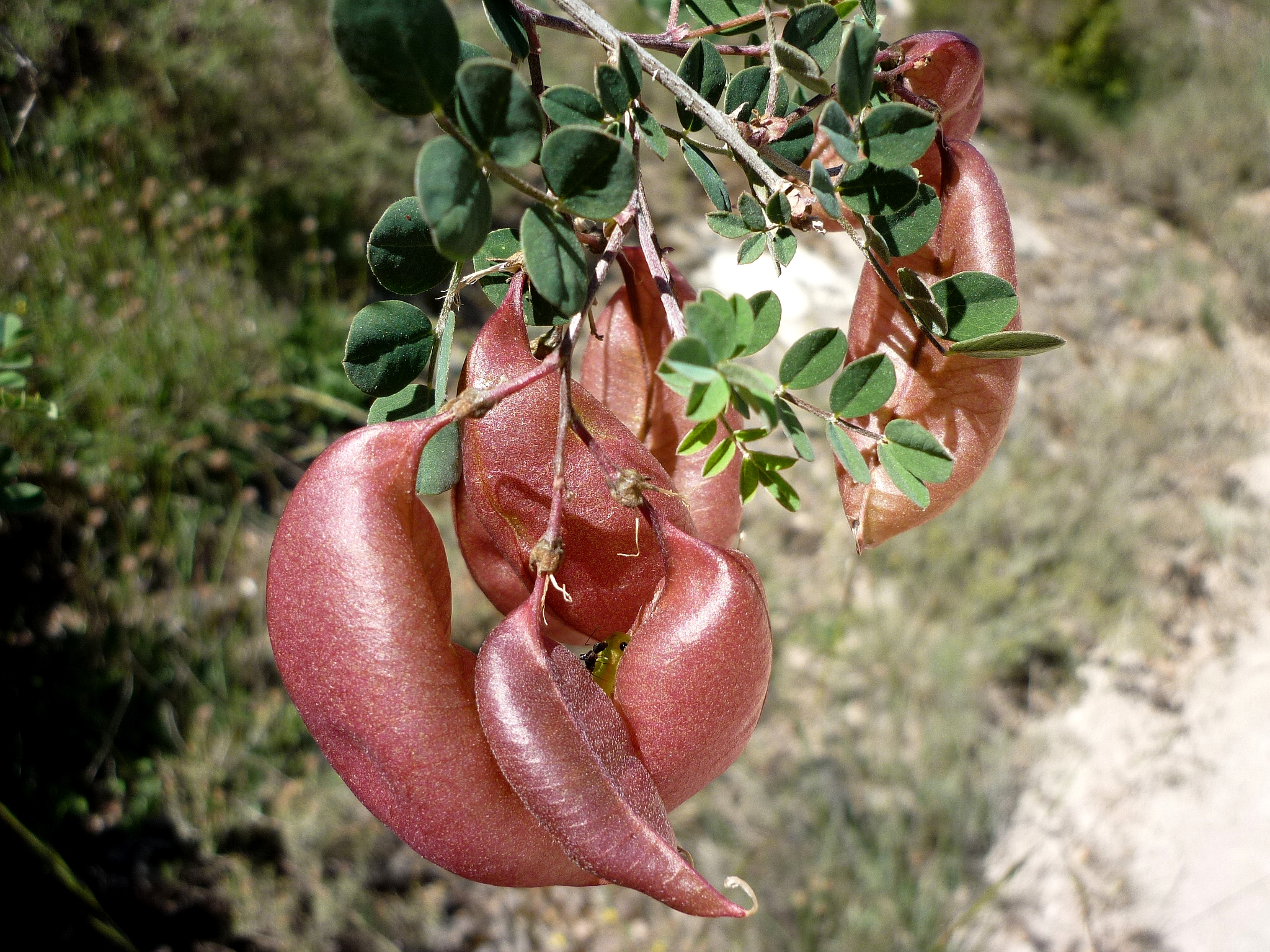 Colutea arborescens. In Torà (Segarra-Catalunya). To 590 m. altitude